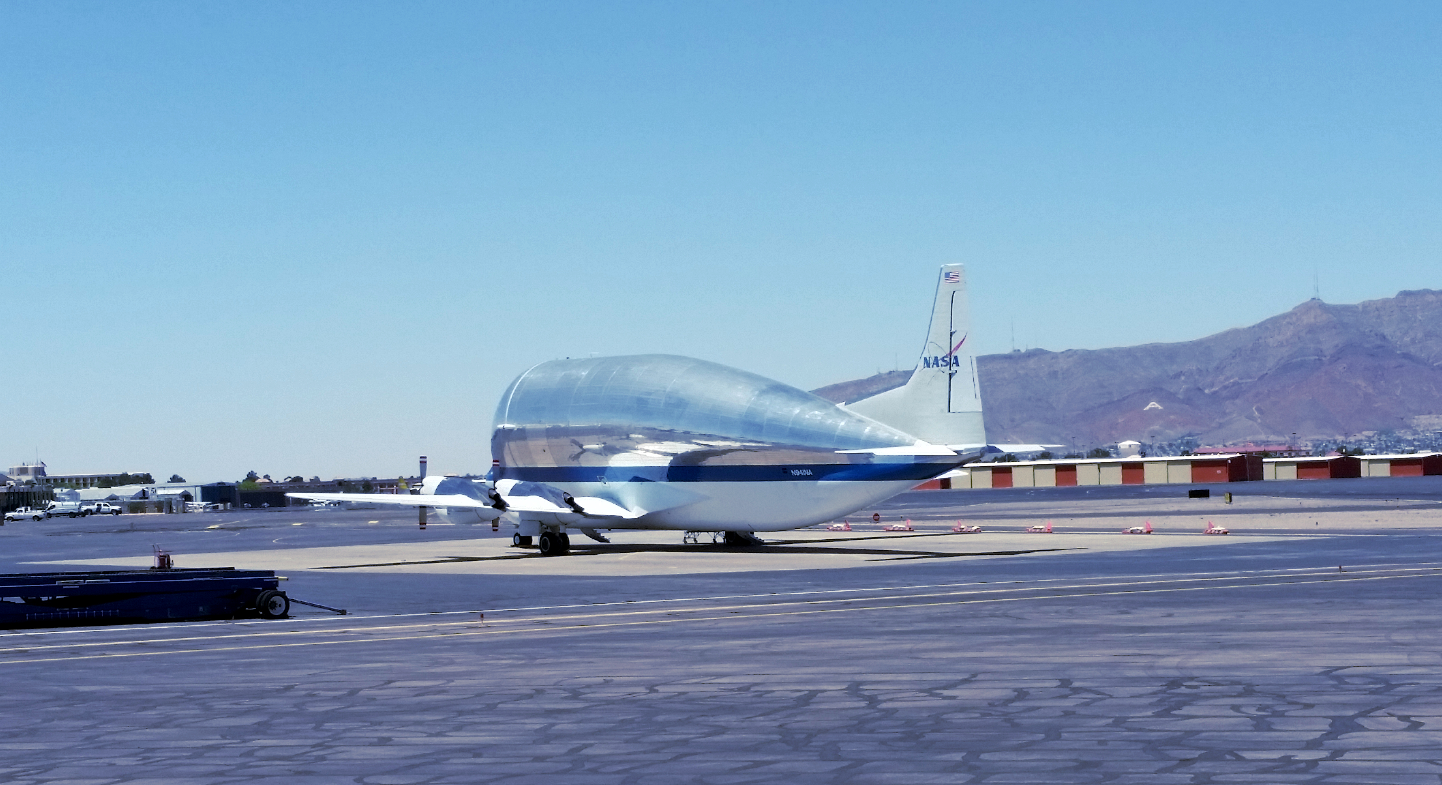 Super Guppy airplane at its home base at El Paso International Airport.